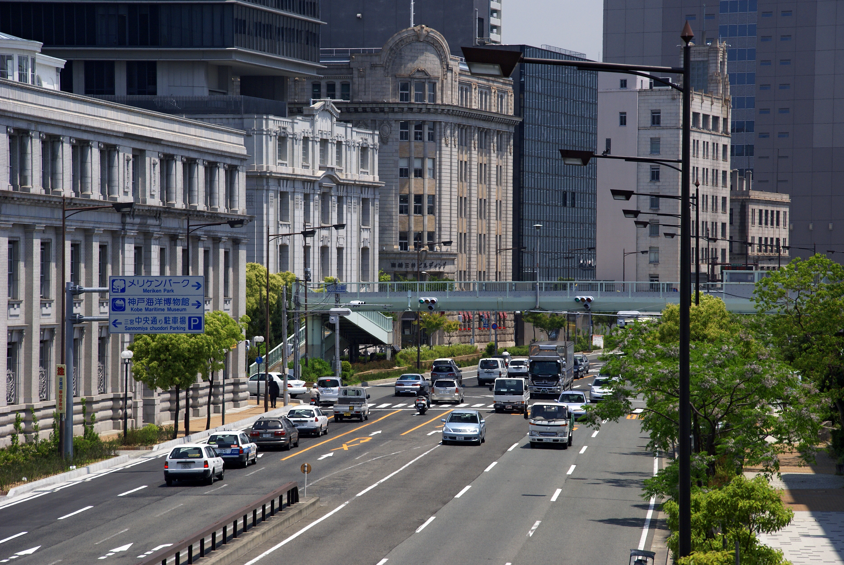 Route2 in Kobe, Hyogo prefecture, Japan